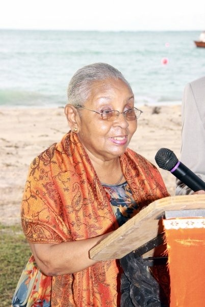 Marion Patrick Jones Picture